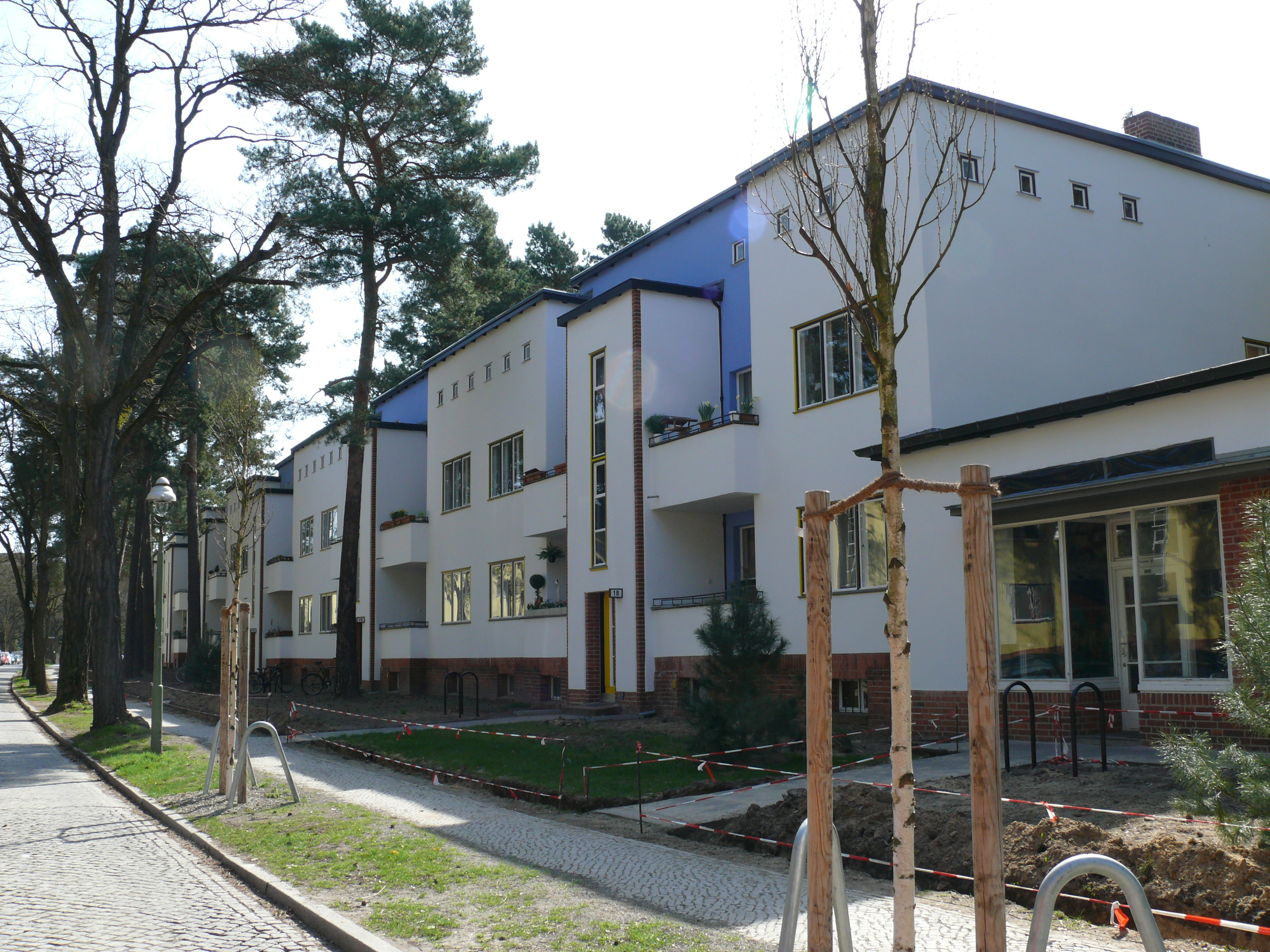 Berlin-Zehlendorf Wilskistraße